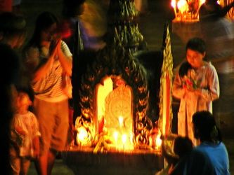 Vesak Location: Wat Khung Taphao Ban Khung Taphao, Khung Taphao subdistrict, Mueang Uttaradit, Uttaradit Province, Thailand.